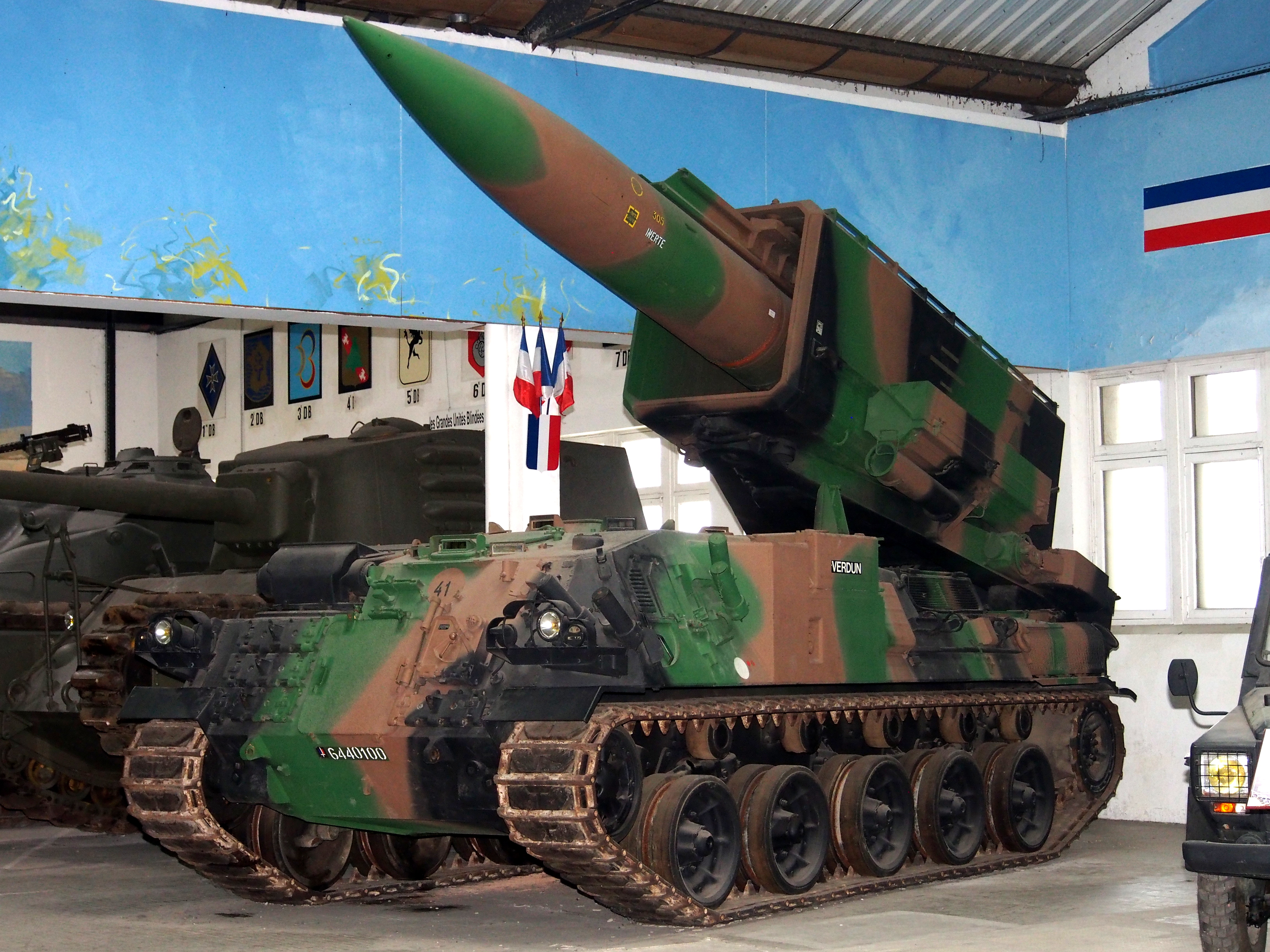 Photographed in the Musée des Blindés, France.